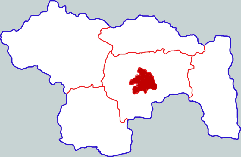 Location of Weidu district in Xuchang city, China